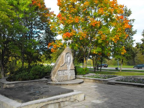 Stone in Utena City